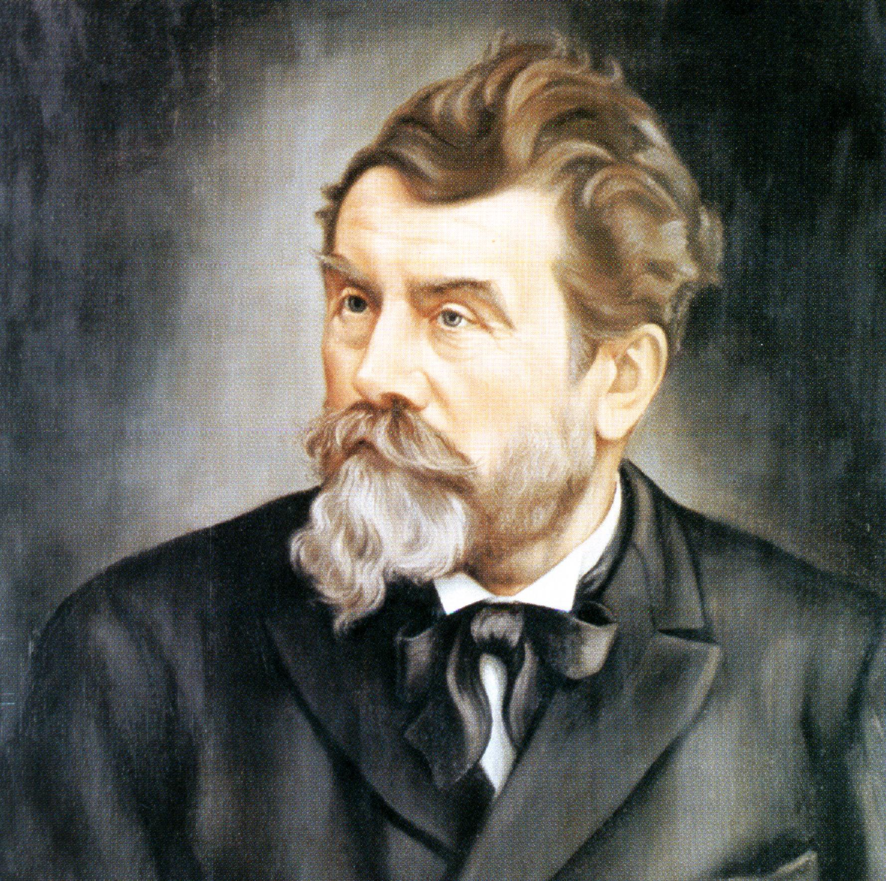 Portrait of Wilhelm Lambrecht, german mechanic, entrepreneur and inventor in the special field of meteorological measurement.